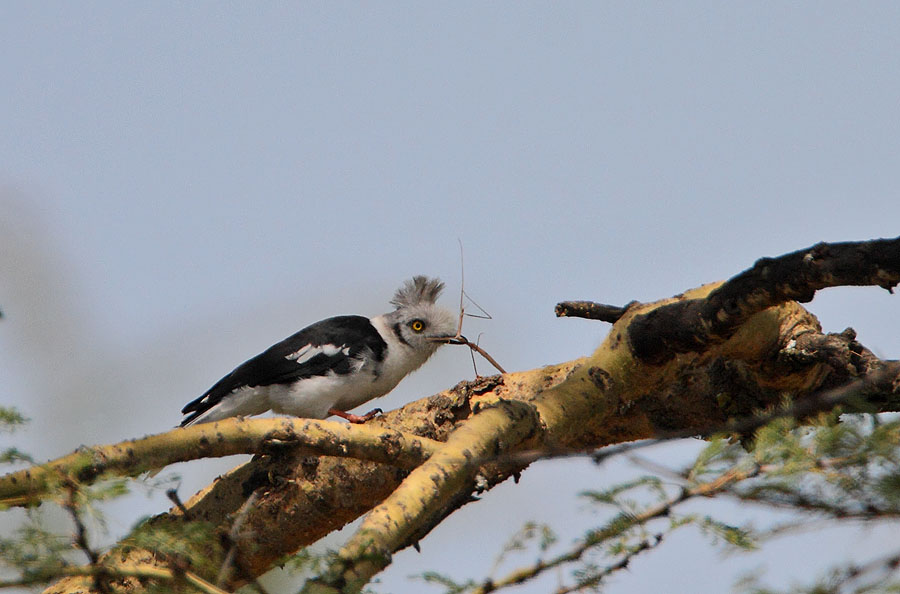 A Grey-crested Helmet-shrike at Lake Nakuru National Park, Kenya.